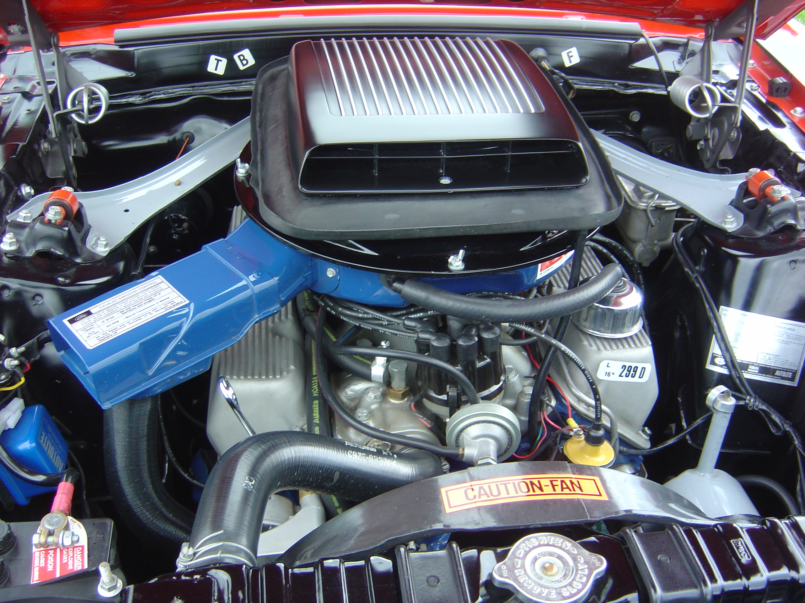 This is a boss 302 engine with the optional factory Shaker Scoop, Picture was taken by me.